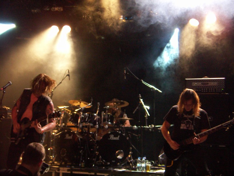 Nachtmystium playing live in 2008 at the 'Hole in the Sky' - Bergen Metal Festival. Left: Blake Judd. Right Jeff Wilson.